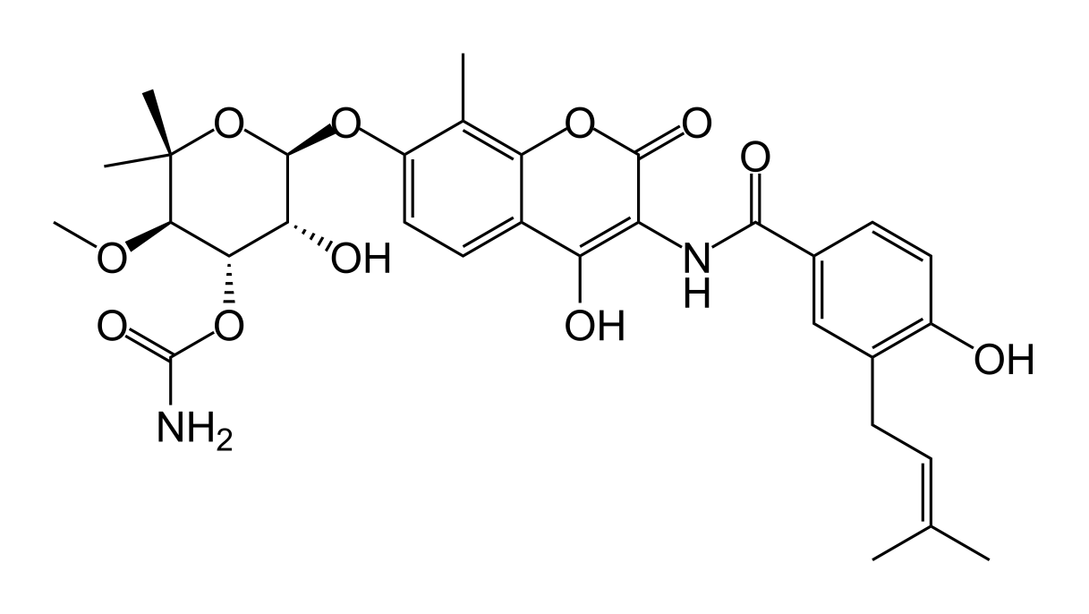 Description: Chemical structure of novobiocin Author: MarcoTolo Date of creation: 18 March 2006 (UTC) Source: Self Copyright: GNU Free Documentation License (GFDL) Creative Commons License (attribution, sharealike, 2.5) (cc-by-sa-2.5) Comments: high-resolution black/white PNG made with ChemDraw and IrfanView.